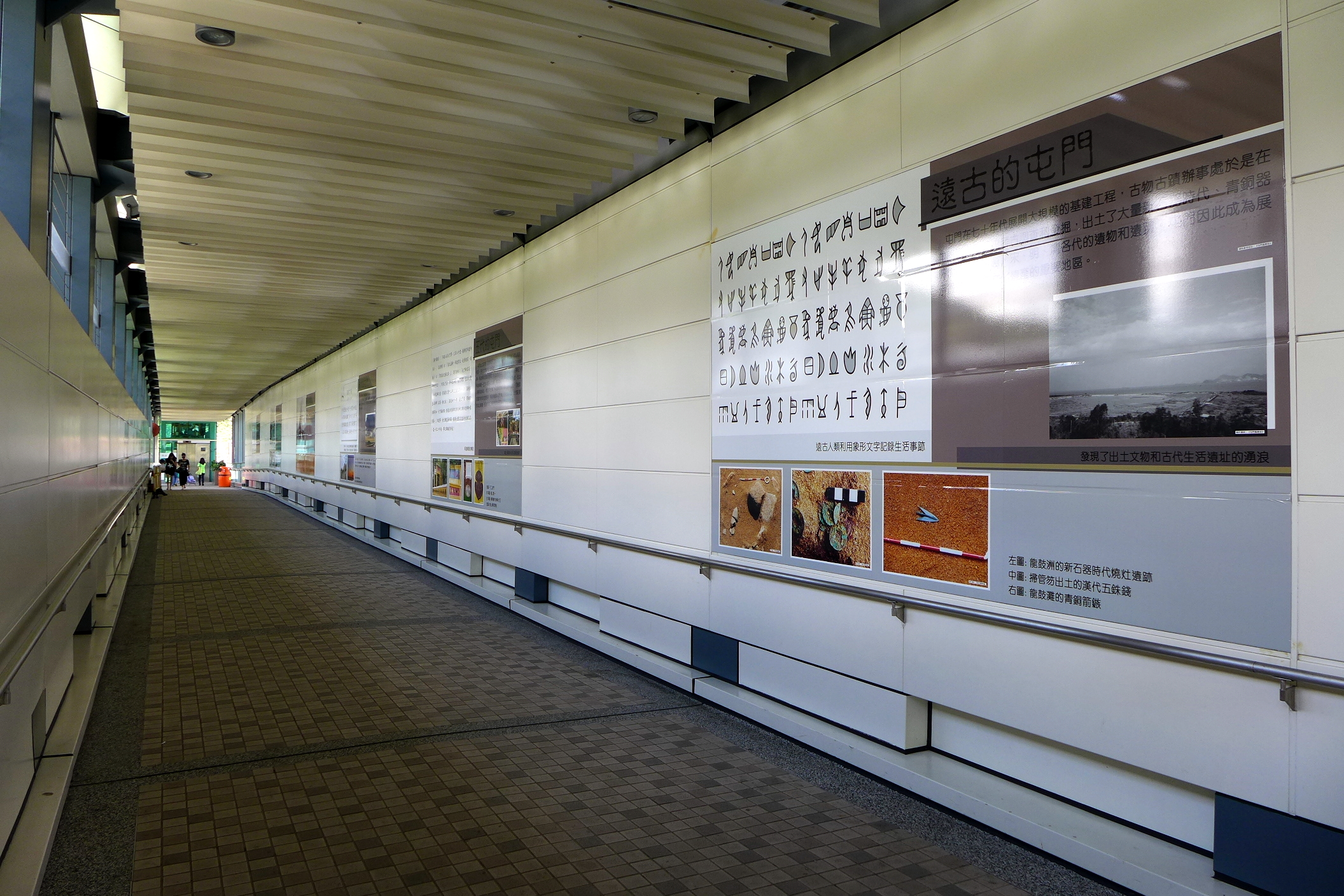 Tuen Mun Road Bridge for pedestrian